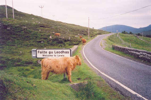 Lewis-Harris "border" The(historical) Lewis-Harris border at the bridge where Abhainn a' Mhuil flows into Loch Seaforth.